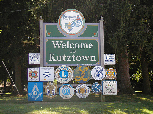 A. Velik, August 2005: 'Welcome to Kutztown' sign on East Main Street in the vicinity of Kutztown Park. Please for comments.